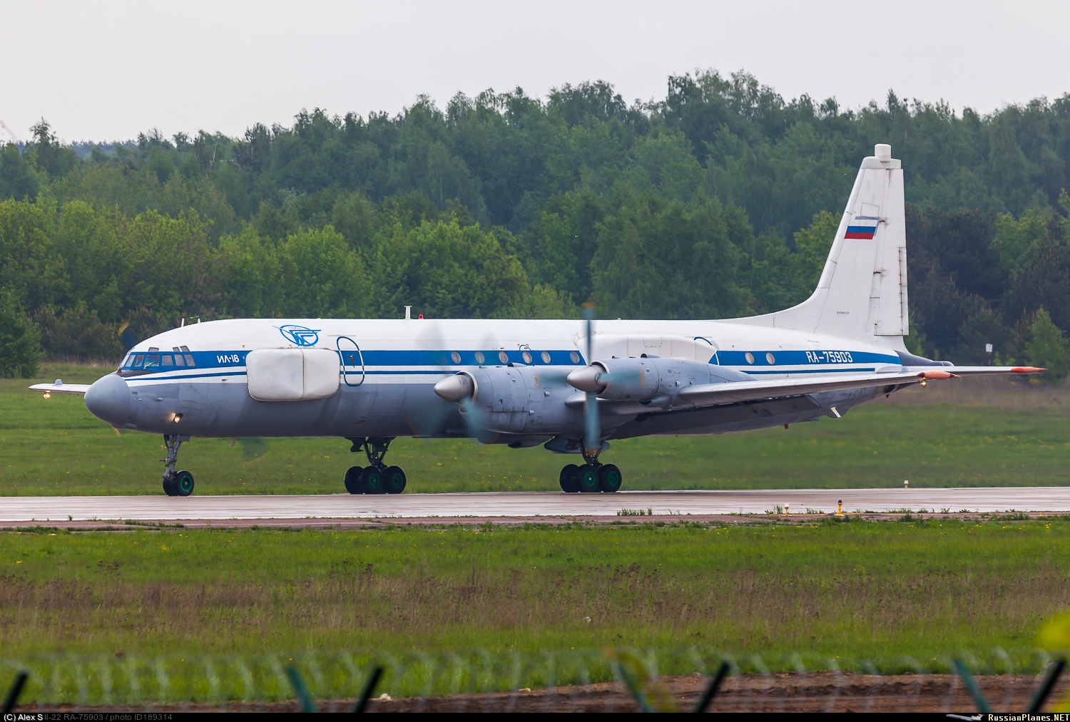 Il-22PP "Prorubshik" at Zhukovsky